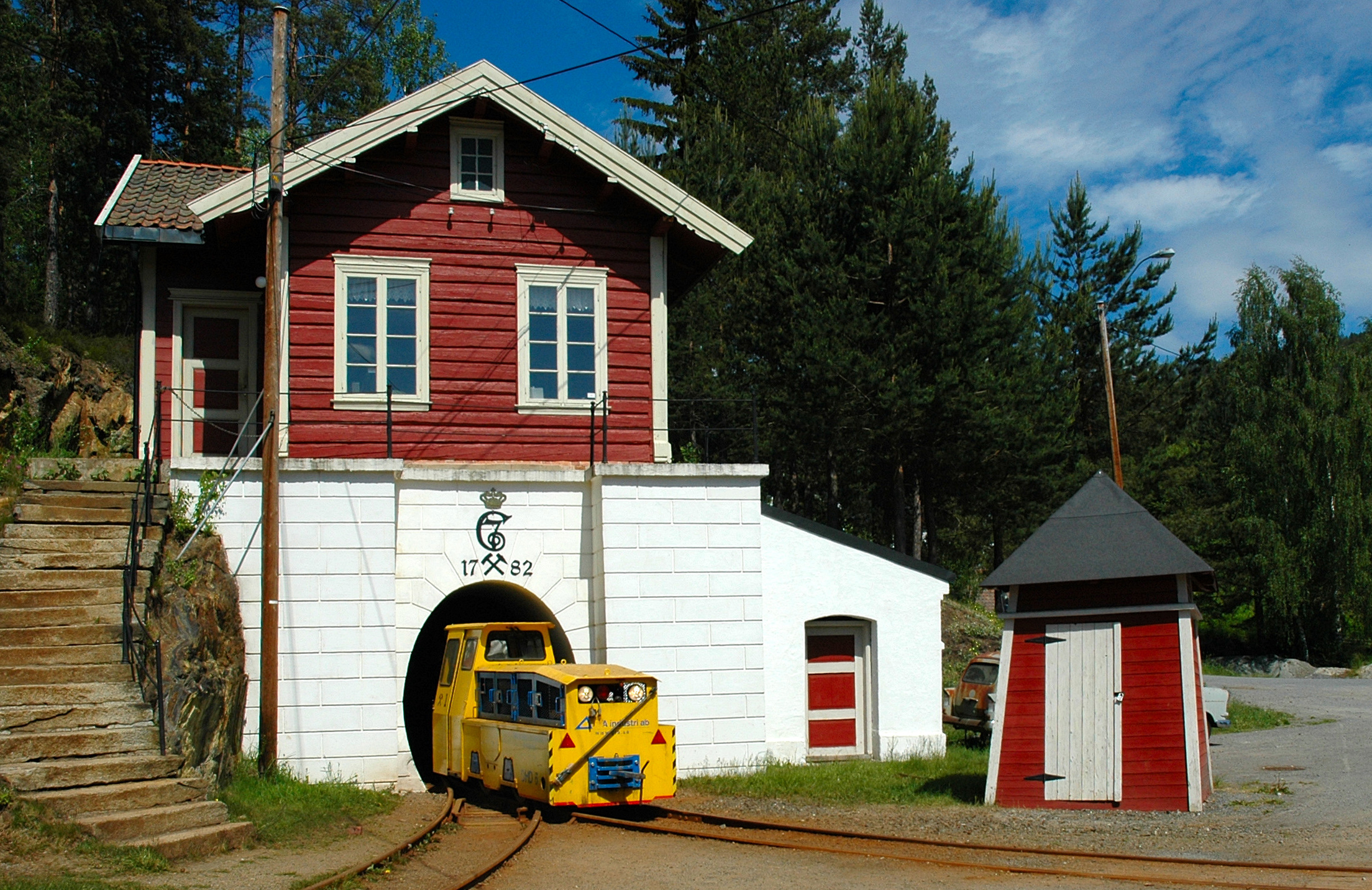 Entrance of 'Kongens Gruve'; 'the Kings Mine', Kongsberg